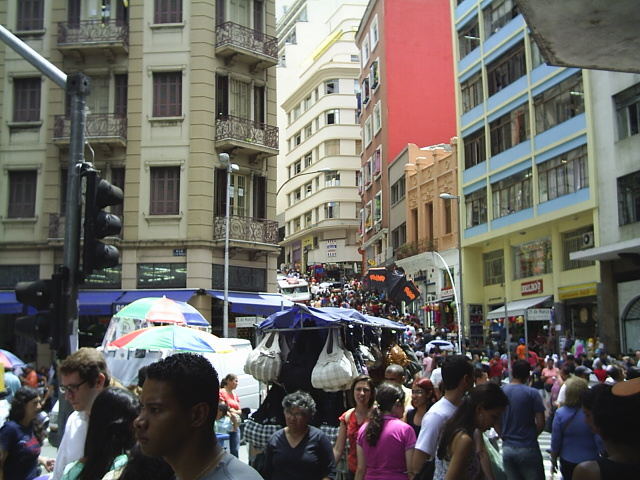 Region of 25 de Março street, in downtown of São Paulo City.